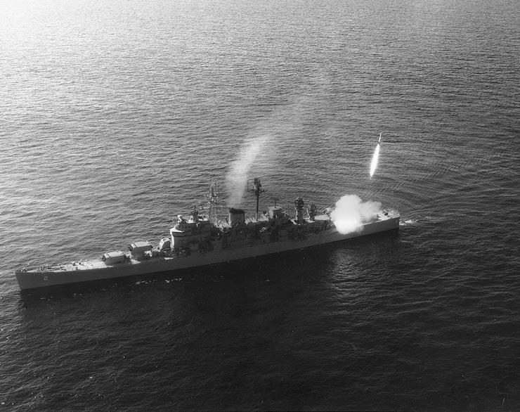 The U.S. Navy guided missile cruiser USS Canberra (CAG-2) fires a SAM-N-7 Terrier guided missile during a training exercise in the Atlantic, February 1957. The photograph was released on 15 March 1957.